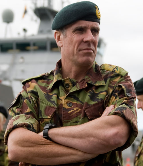 Crop of Major General Tim Keating as Chief of Army